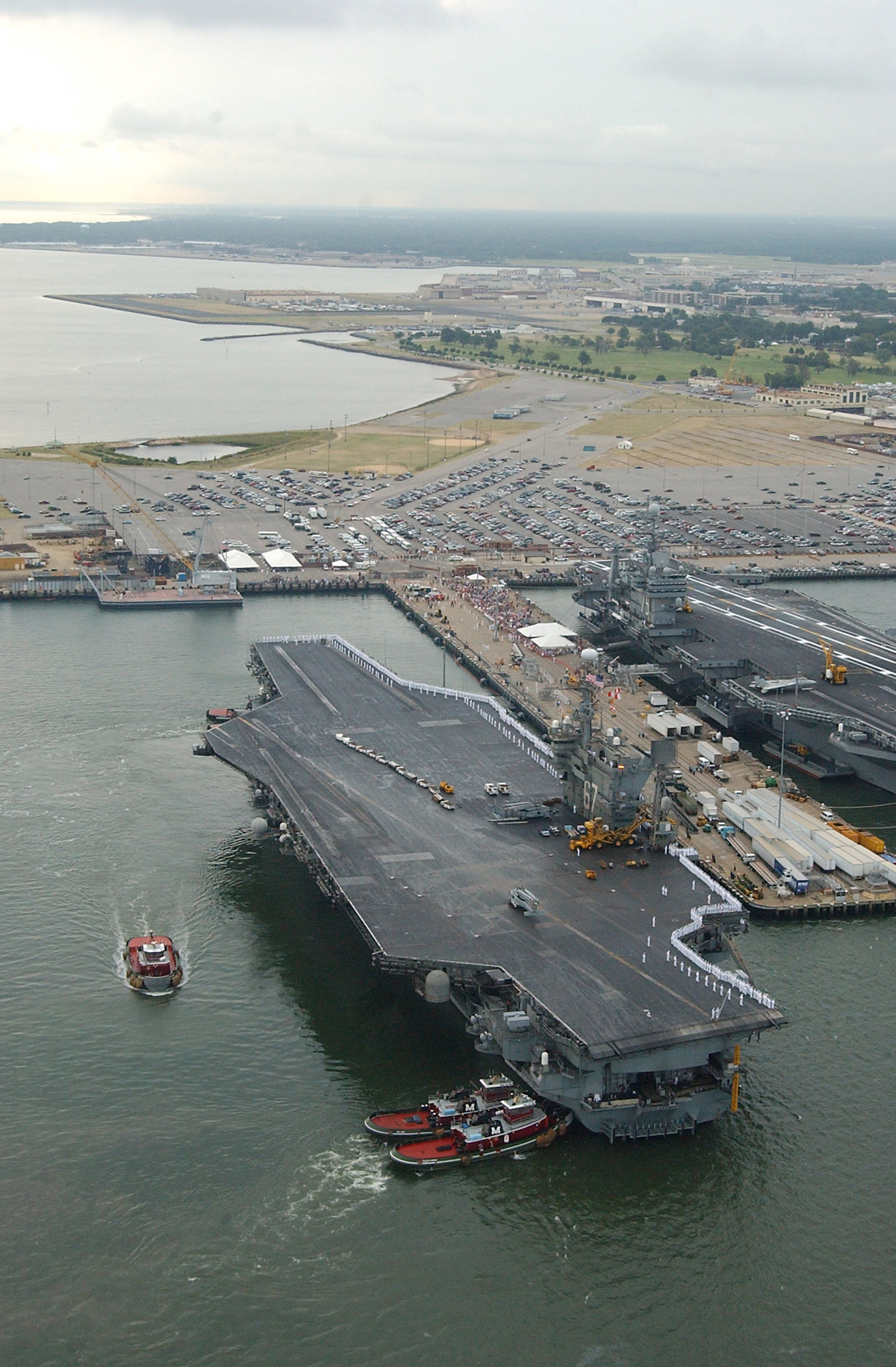 Norfolk, Va. (Aug. 15, 2002) -- USS John F. Kennedy (CV 67) approaches the pier at Naval Station Norfolk, Va., as the ship prepares to disembark part of her air wing personnel before continuing her journey to Mayport, Fla., where she is homeported. Kennedy just completed a six-month deployment to the Mediterranean Sea and Arabian Gulf in support of Operation Enduring Freedom. U.S. Navy photo by Photographer’s Mate 1st Class Martin Maddock. (RELEASED)